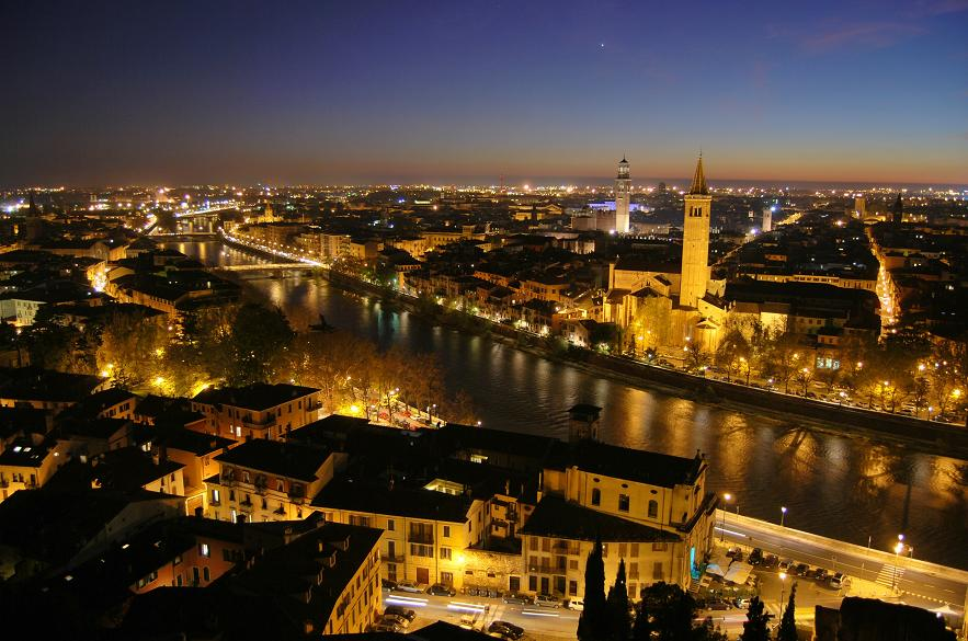 Verona at sunset